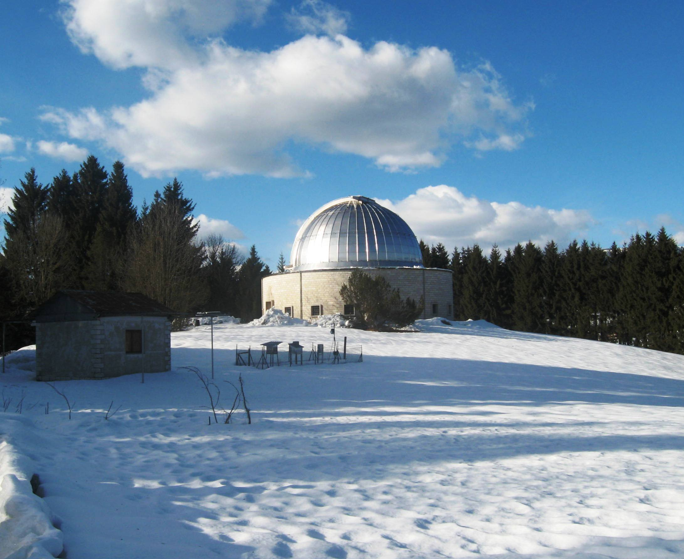 View of Asiago astronomical observatory